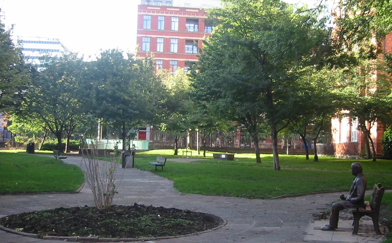 Sackville Park in Manchester (UK), with Turing memorial statue towards Canal Street.